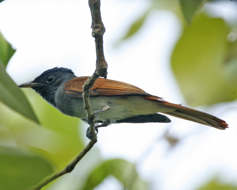 Amur Paradise Flycatcher Terpsiphone incei, Sungei Buloh Wetland Reserve, Singapore